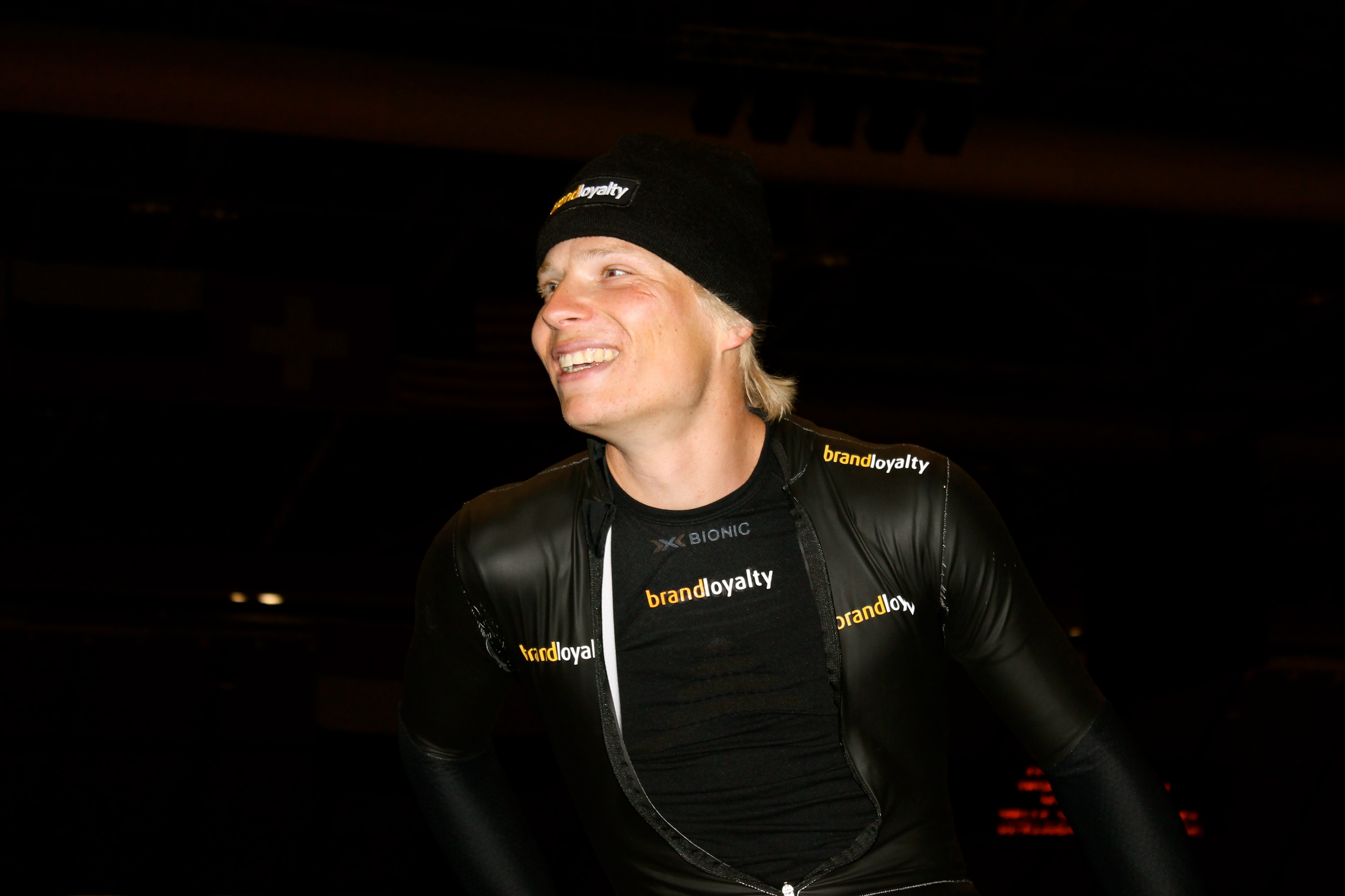 Pim Schipper